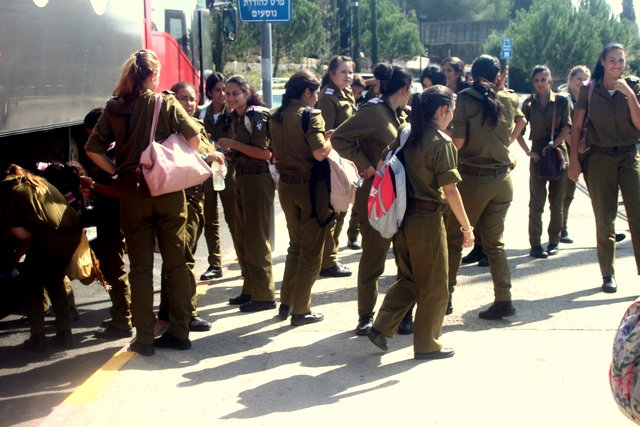 Large group of female soldiers in Israel at Jerusalem